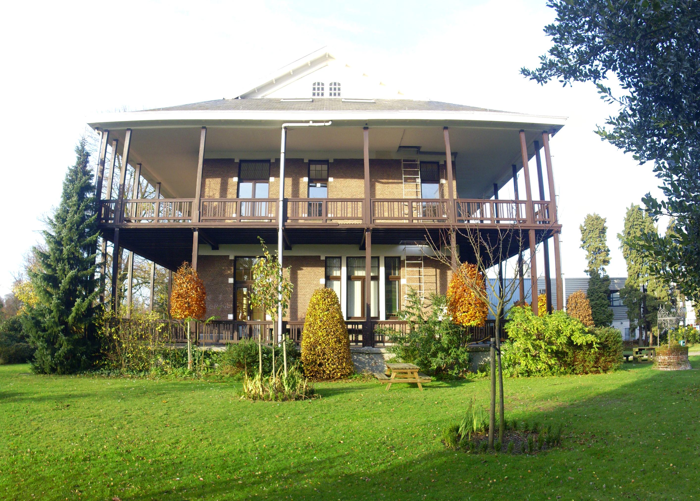 Campus Middelheim C Building - Dep. Personeel (south view)